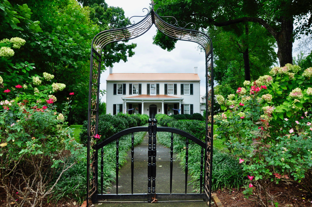 The Bray Place is listed on the National Register of Historic Place in 1980